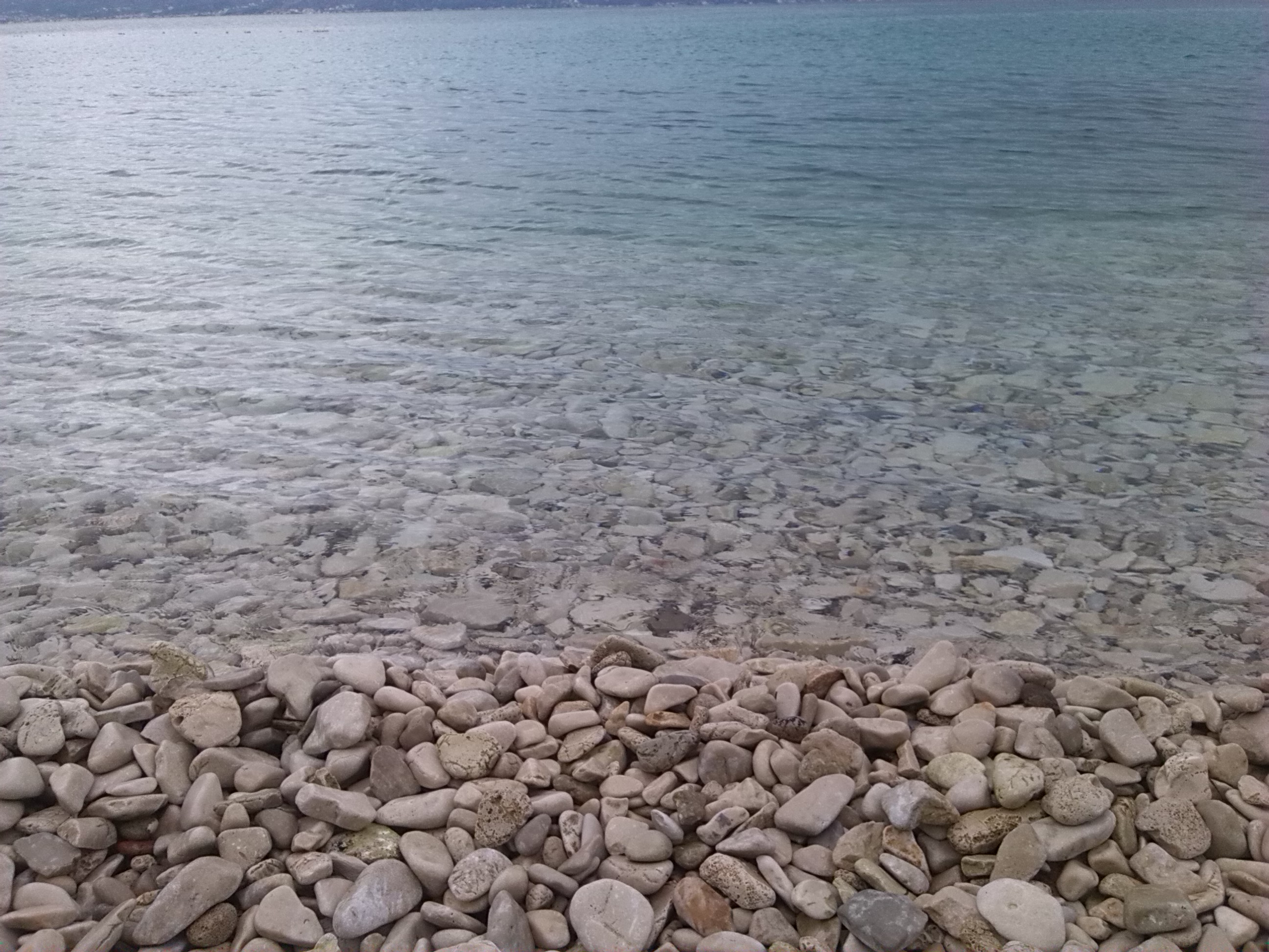 Picture of a rocky beach at Brač island (Croatia), in the Adriatic Sea. Summer. Photograph by Federico Gatto, 2014.